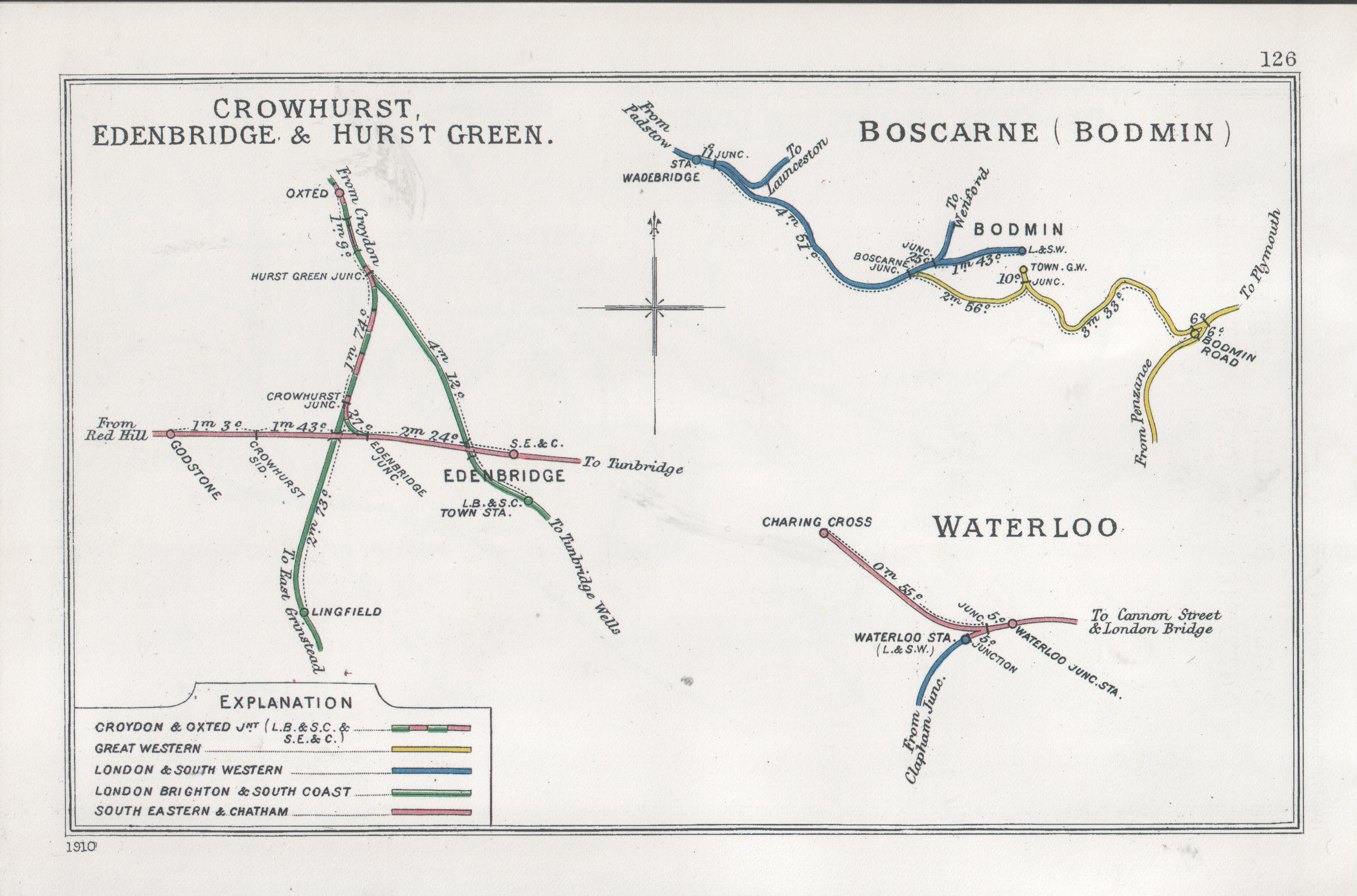 Railway Junctions in Crowhurst, Edenbridge & Hurst Green; Boscarne (Bodmin); Waterloo pre grouping